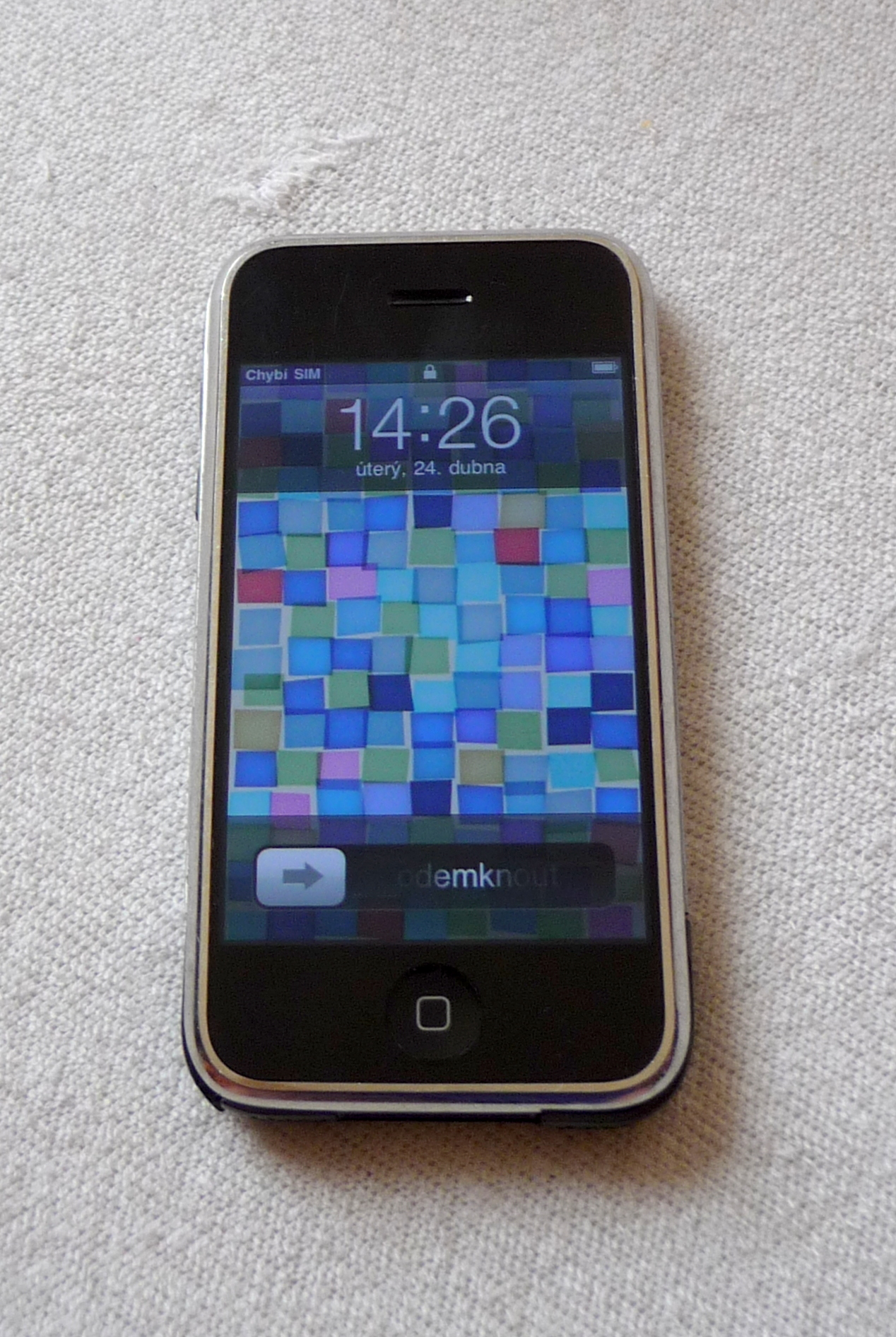 Apple iPhone 2G 8GB mobile phone with iOS 3.1.3 (7E18)